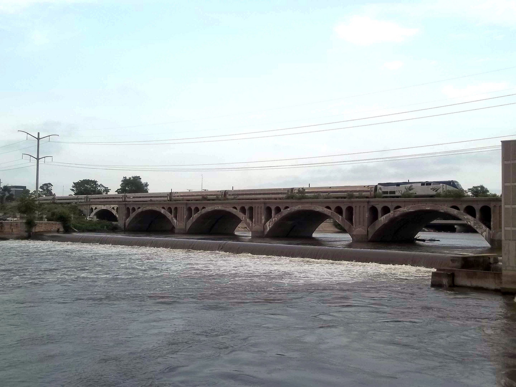 Amtrak's Illini crosses the Kankakee River a half-hour late on June 9, 2011. A GE P42DC leads a standard consist of Amfleet and Horizon coaches.